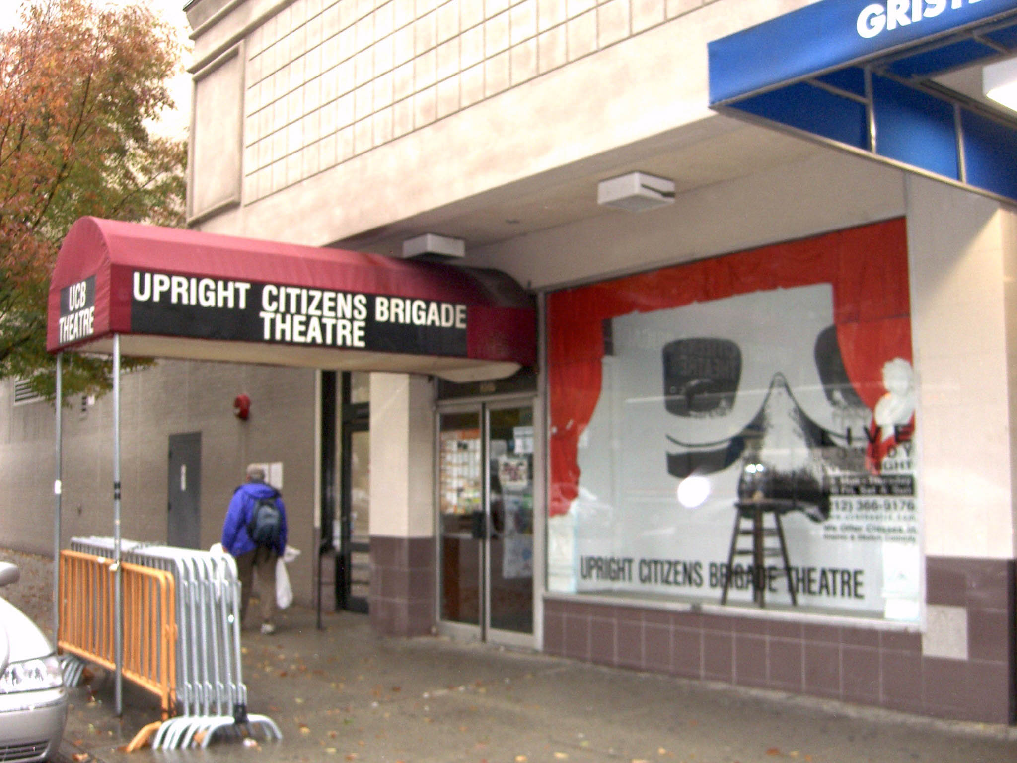 The Upright Citizens Brigade Theatre on West 26th Street in Manhattan. Photographed by Luigi Novi. This photo may be used, modified and published for any purpose, only if an easily visible credit to the photographer is placed near the photo in each instance in which it is used. (See licensing information below.) Publication of this photo without this proper attribution constitutes copyright infringement. For more information on my photos, you can contact me here.